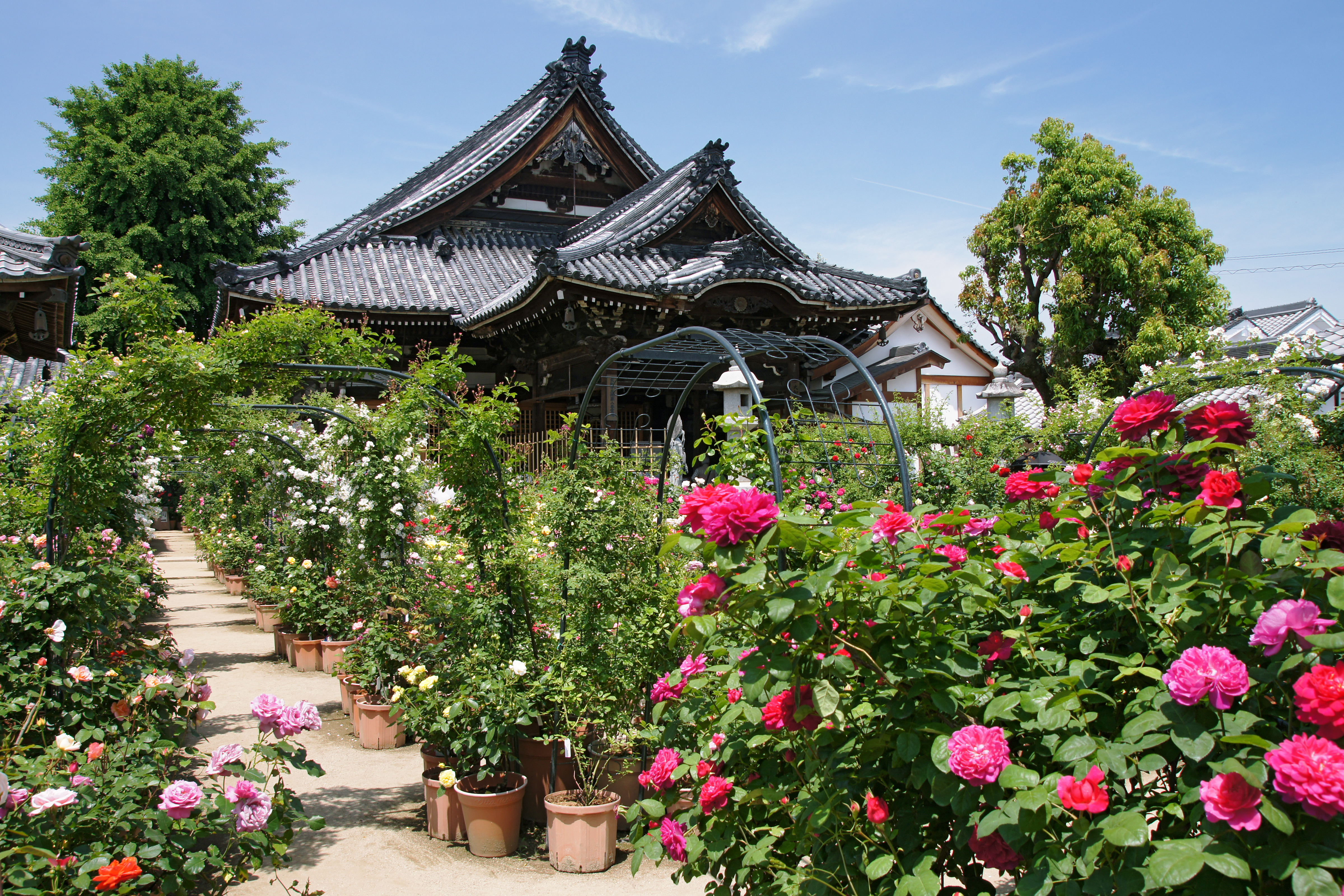 Ofusa-kannon in Kashihara, Nara prefecture, Japan